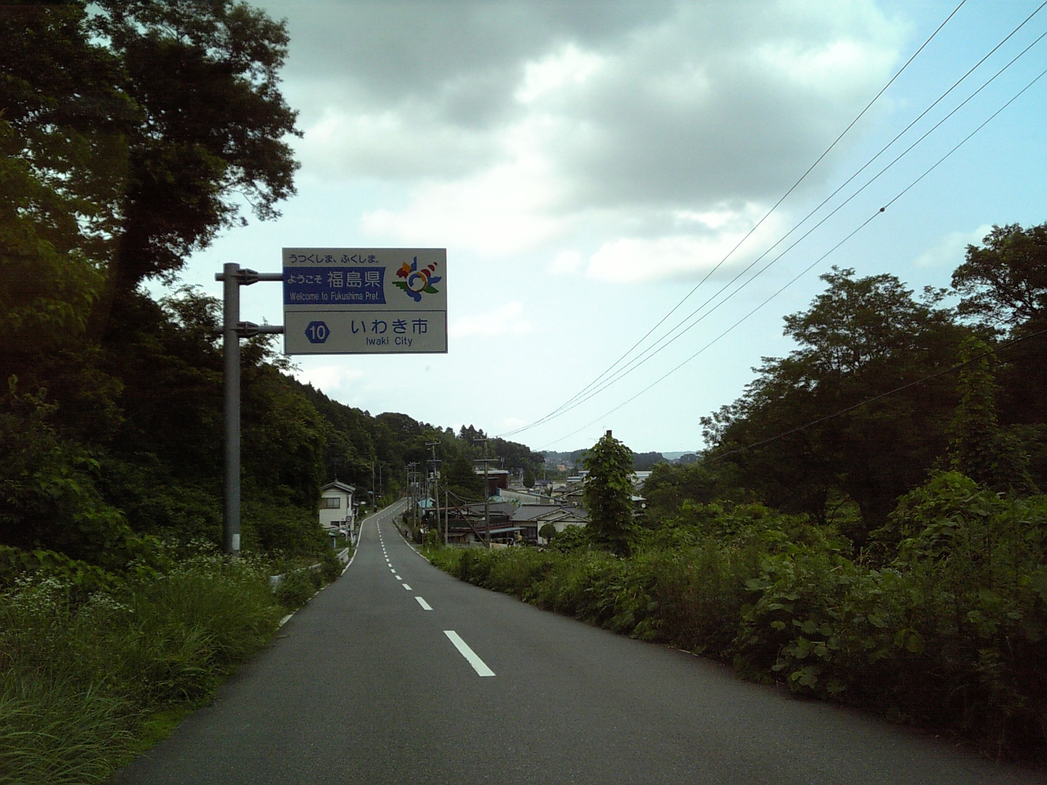 The Ibaraki Prefectural Road and Fukushima Prefectural Road Route 10 on the prefectural border